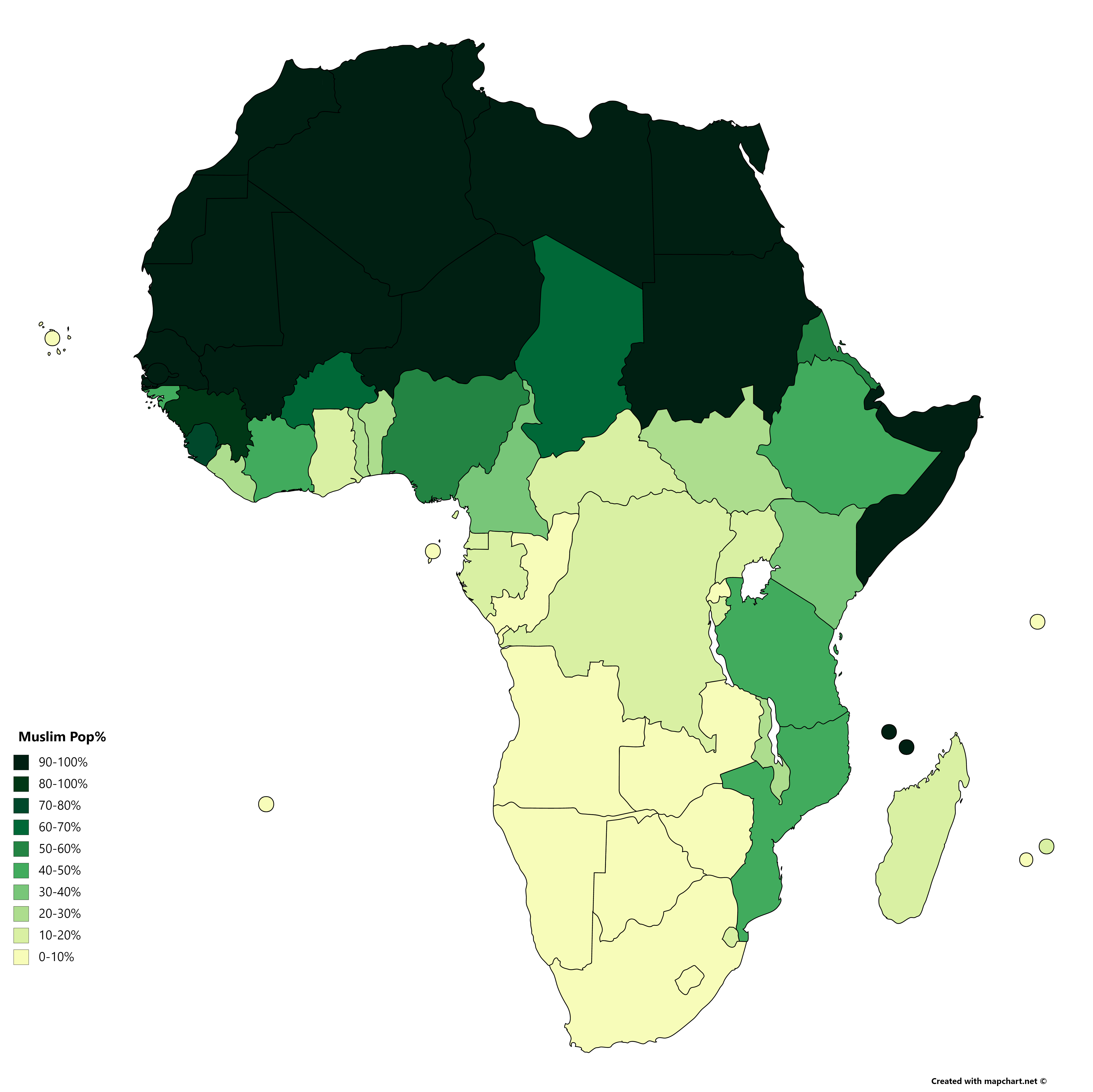 Country By Muslim Percentage